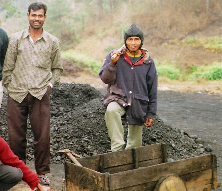 I RMehra, took this picture myself in Jowai in February 2005